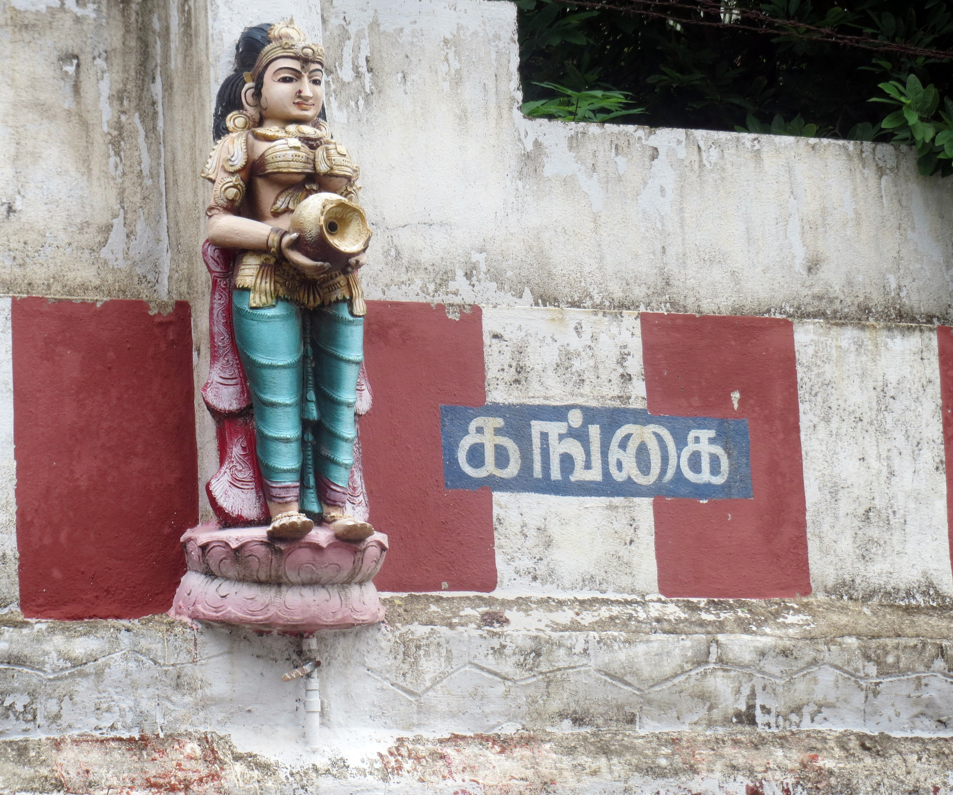 Statue of Gangai nathi on the banks of Amirthakadeswarar Temple tank, Selaiyur in Chennai.